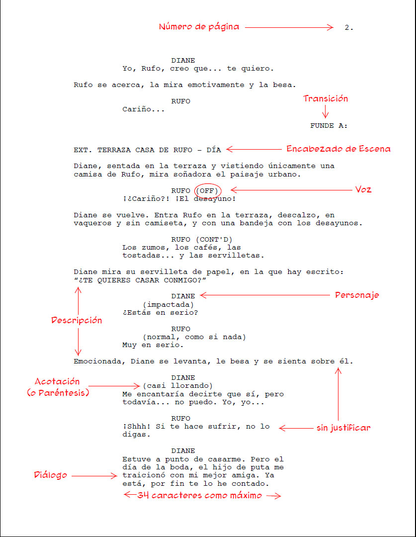 Screenplay format guide